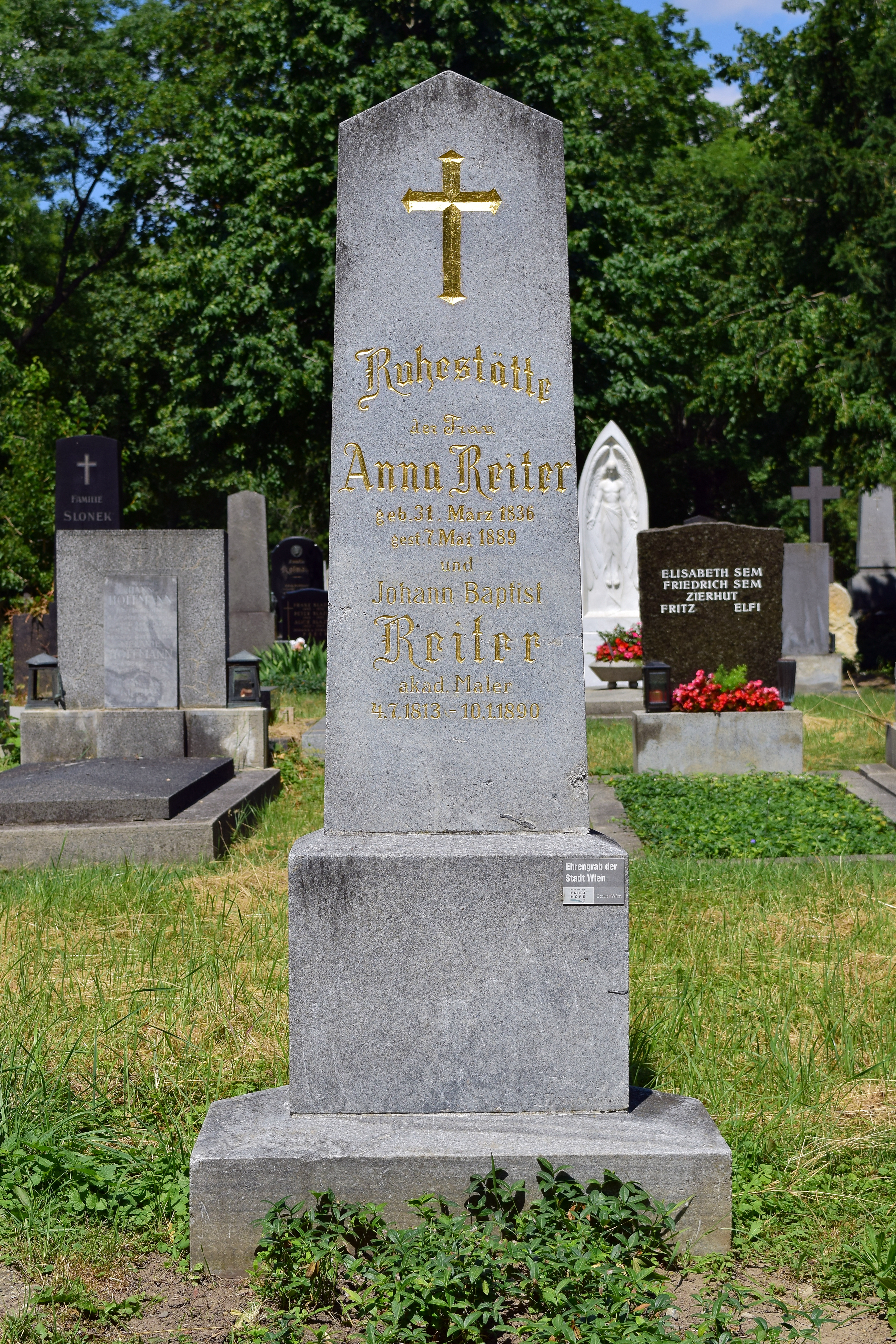 Grave of honor of Johann Baptist Reiter at the Wiener Zentralfriedhof